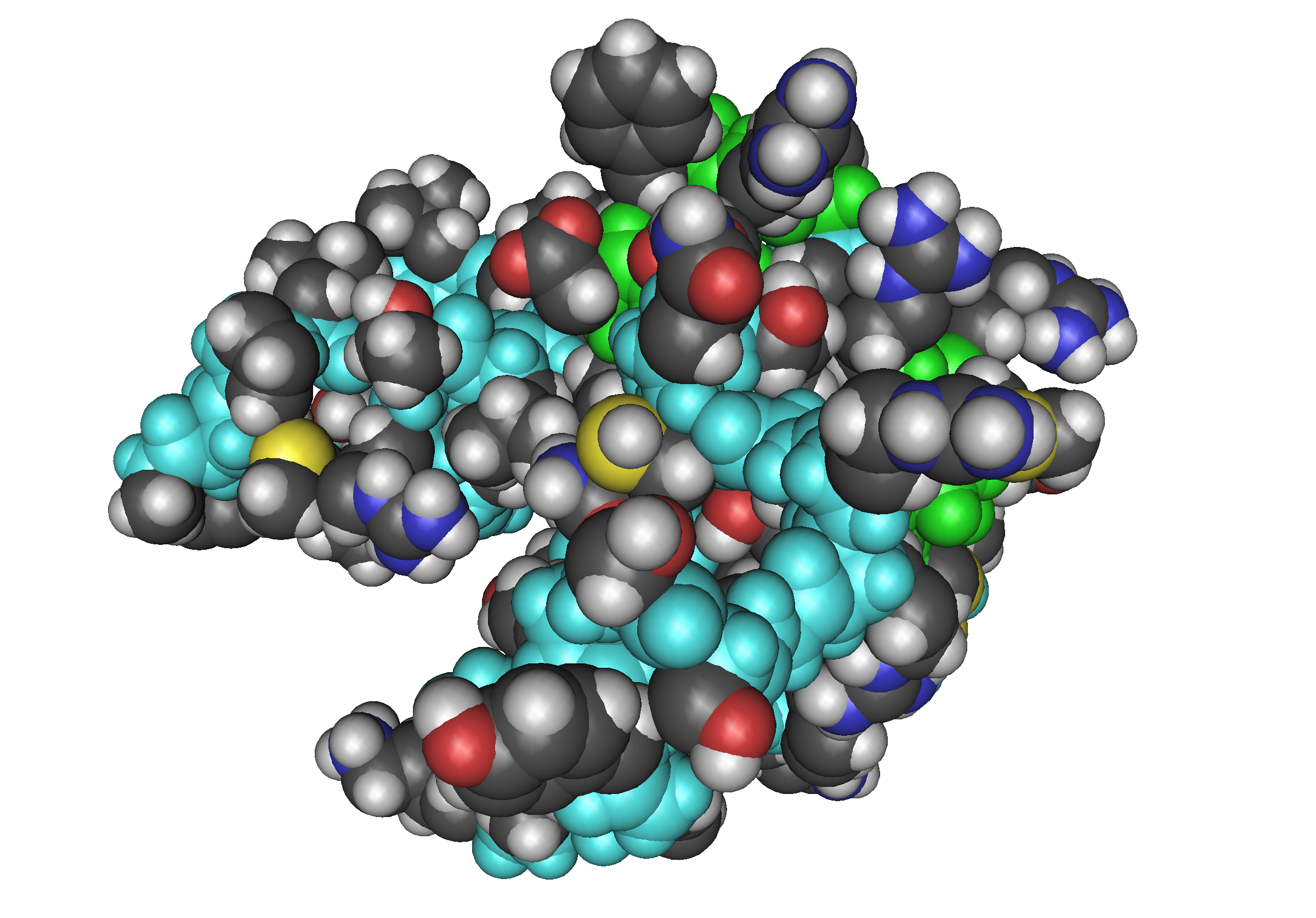 3LRI Solution Structure And Backbone Dynamics Of Human Long arg3 insulin Like Growth Factor 1